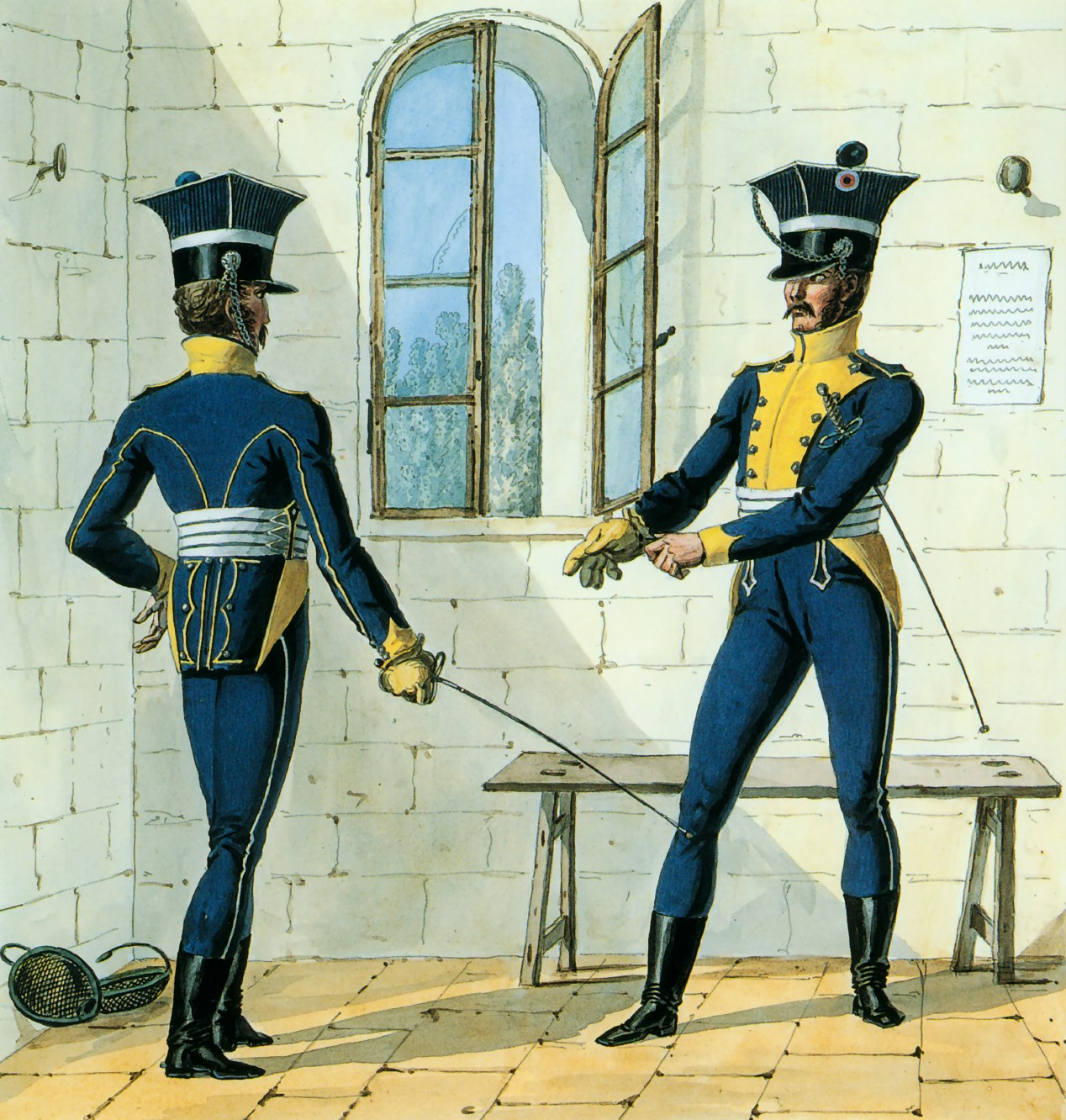 Part of a series chronicling the uniforms of Napoleon's Grande Armée.